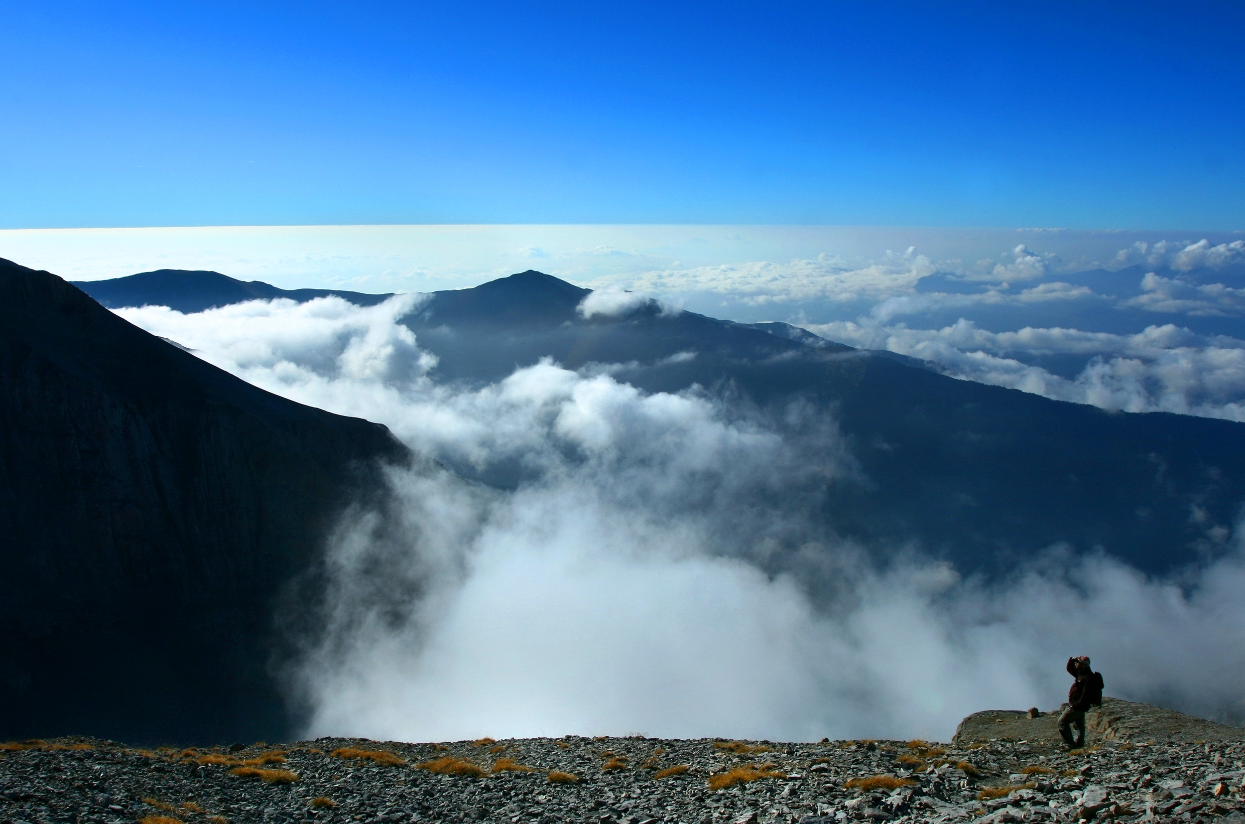 This is a photography of Natura 2000 protected area with ID GR1250001